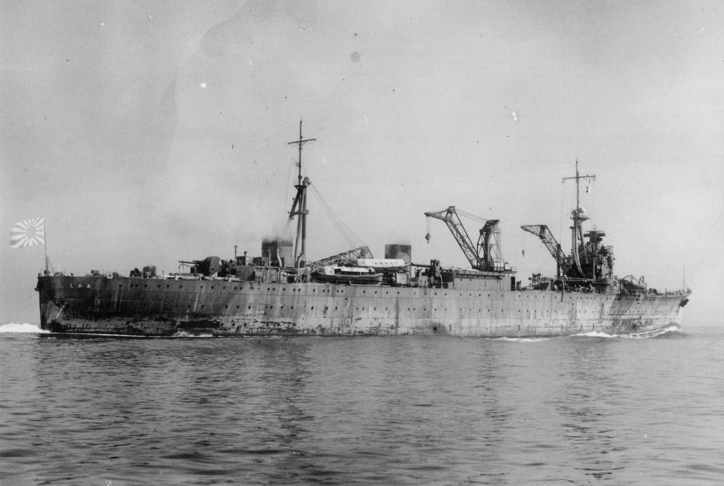 Imperial Japanese Navy repair ship Akashi running sea trials off Sasebo.